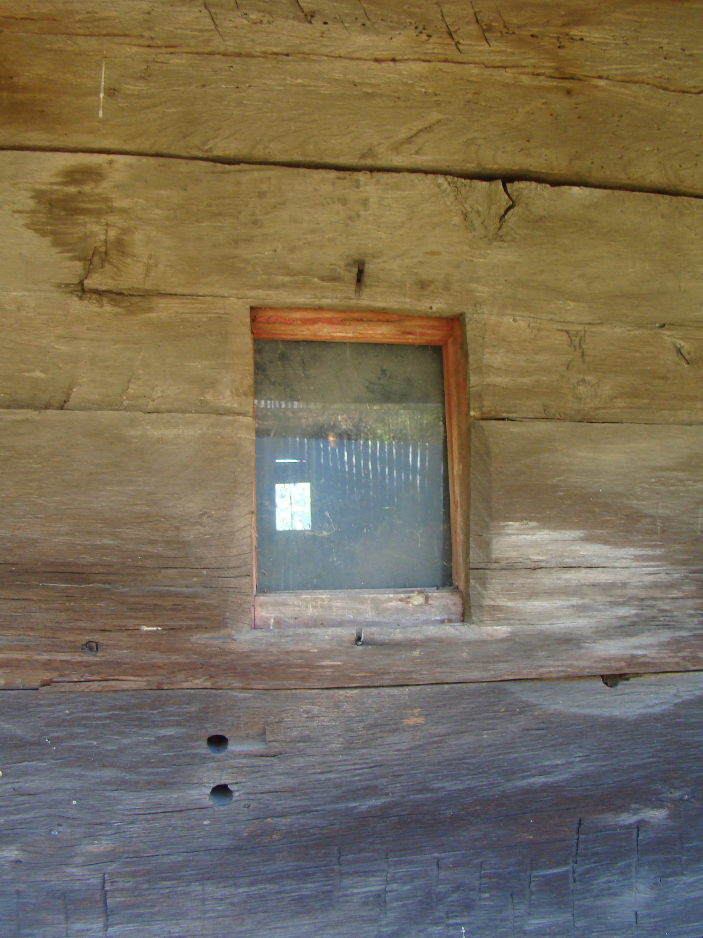 Wooden church in Larga, Gorj county, Romania